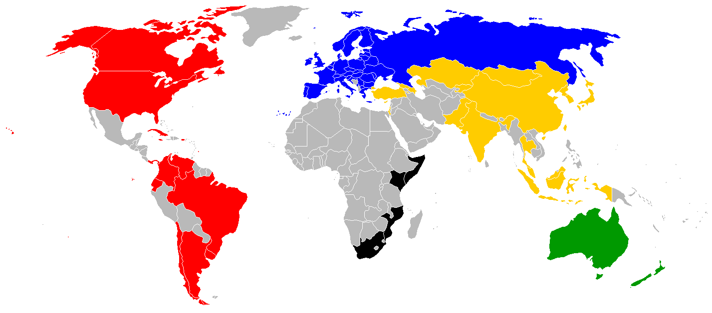 International Orienteering Federation (IOF) members